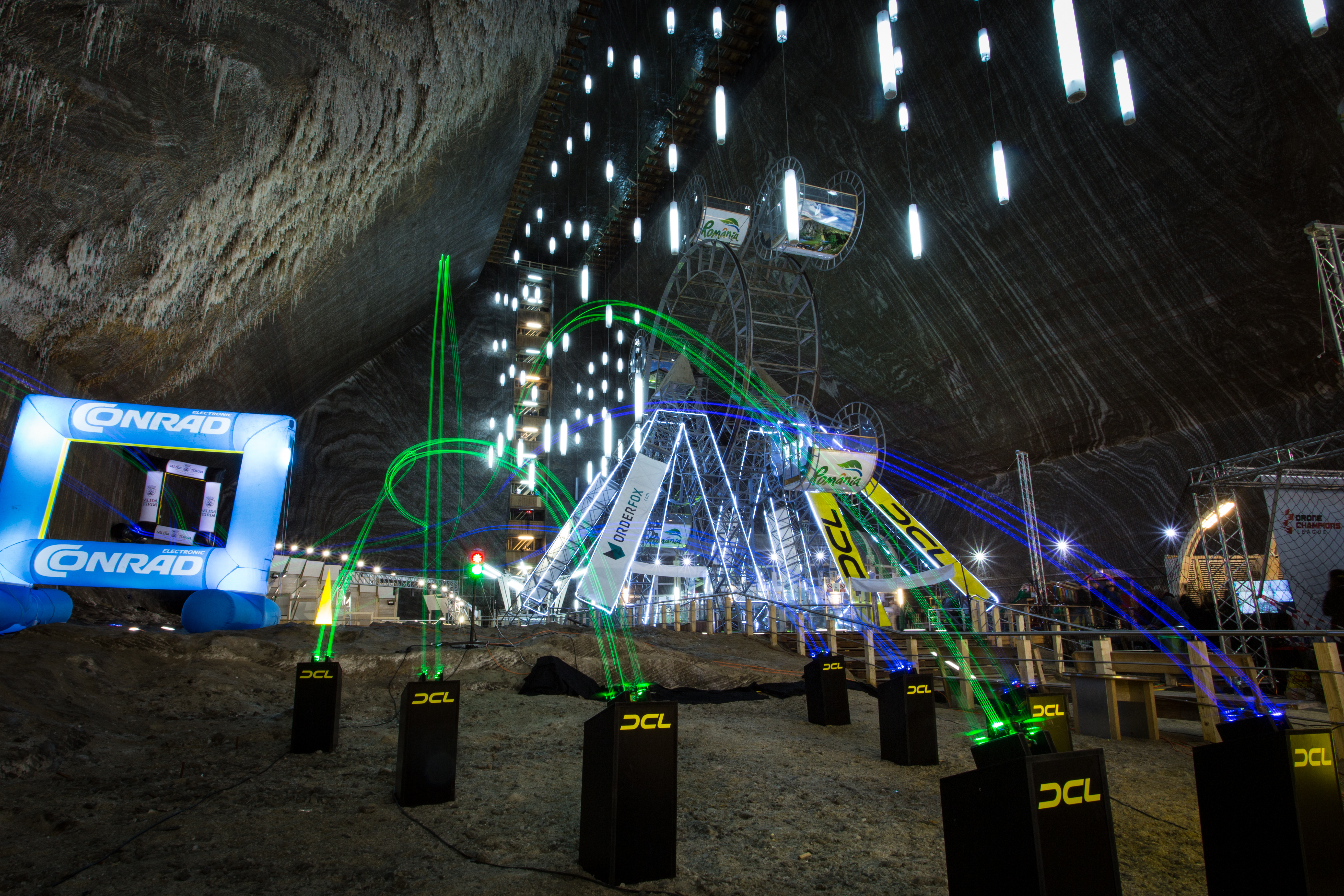 DCL - Drone Champions League - Salina Turda - Rumania